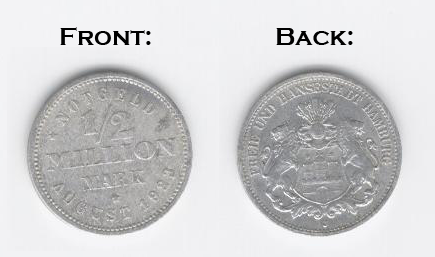 A 1/2 Million Mark Notgeld coin from 1923 issued by the city of Hamburg, Germany